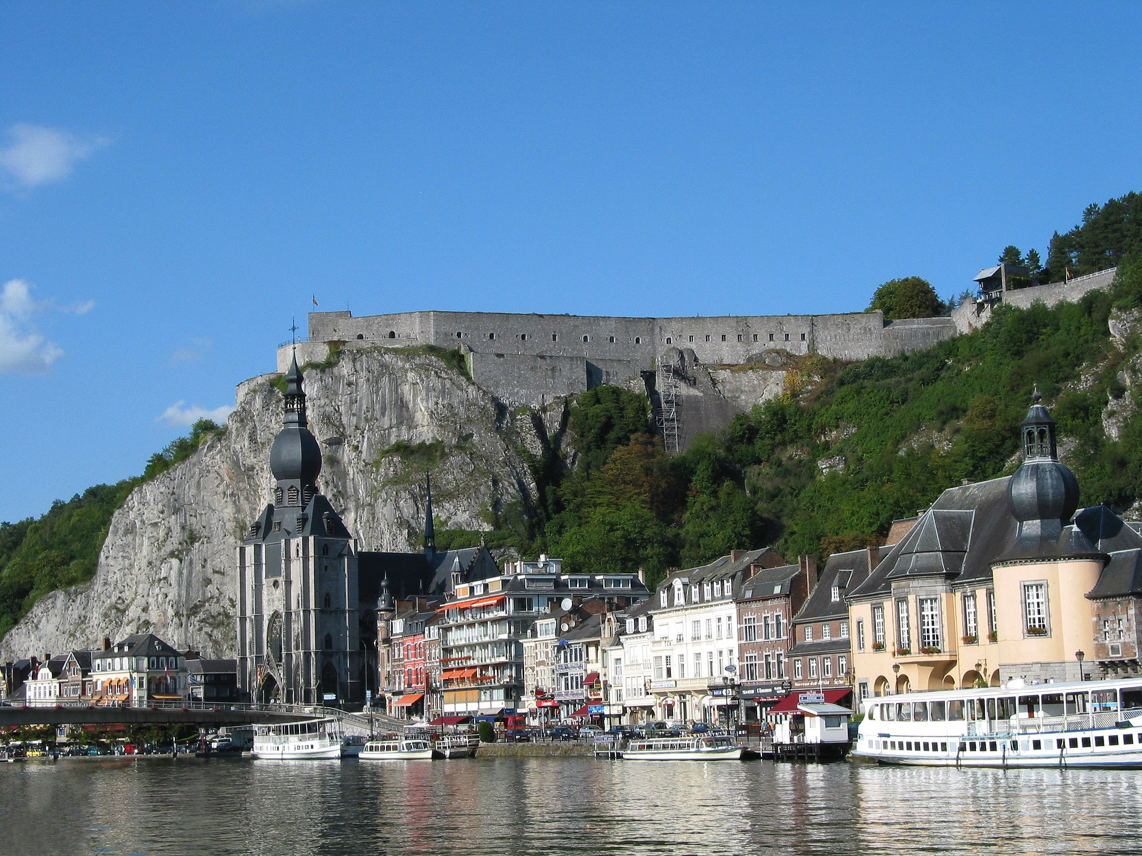 Dinant (Belgium), the Notre-Dame or Saint Perpète collegiate church, the citadel and the Meuse.